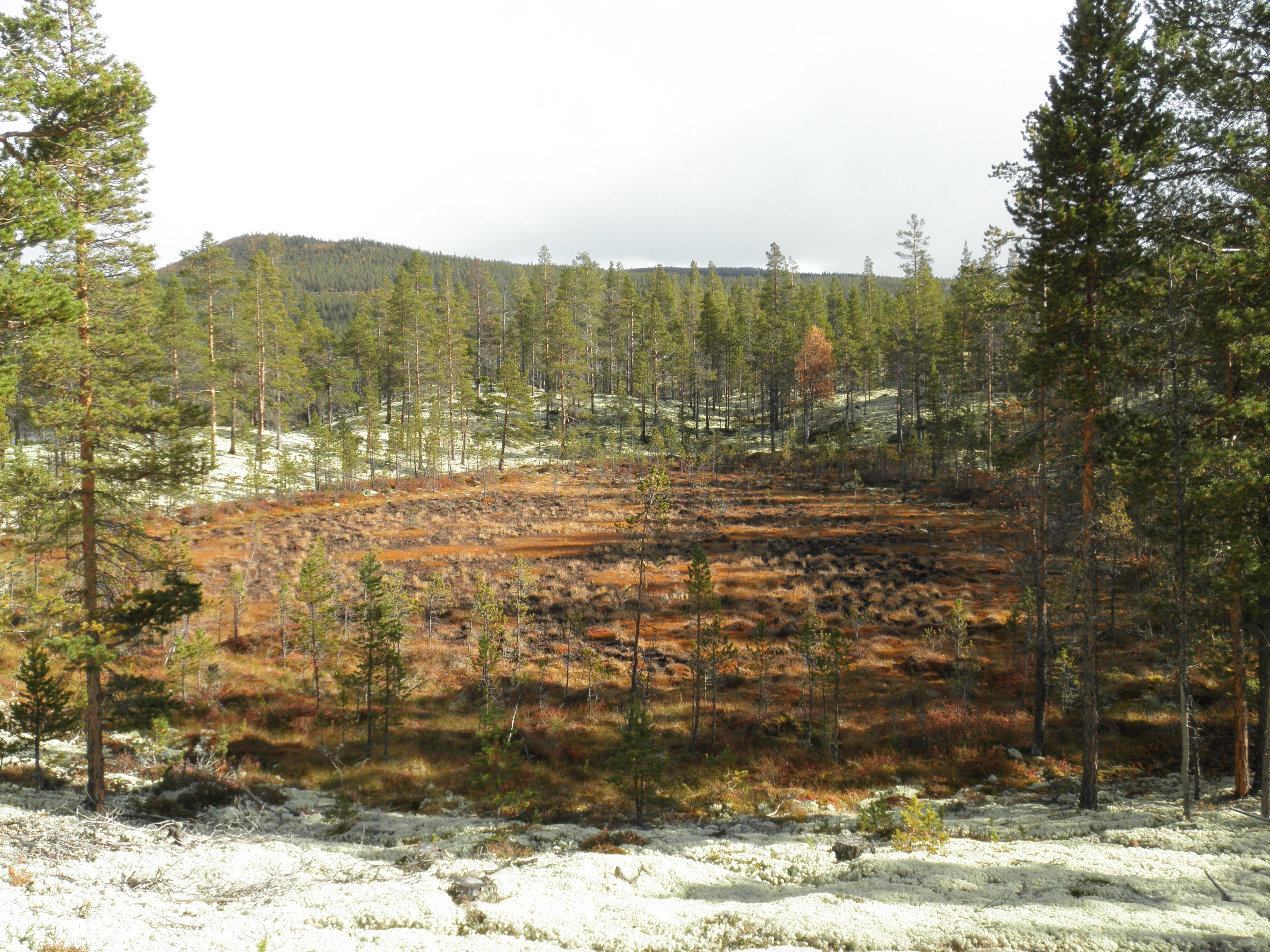 Kettle hole in Grimsmoen naturreservat (Nature reserve)